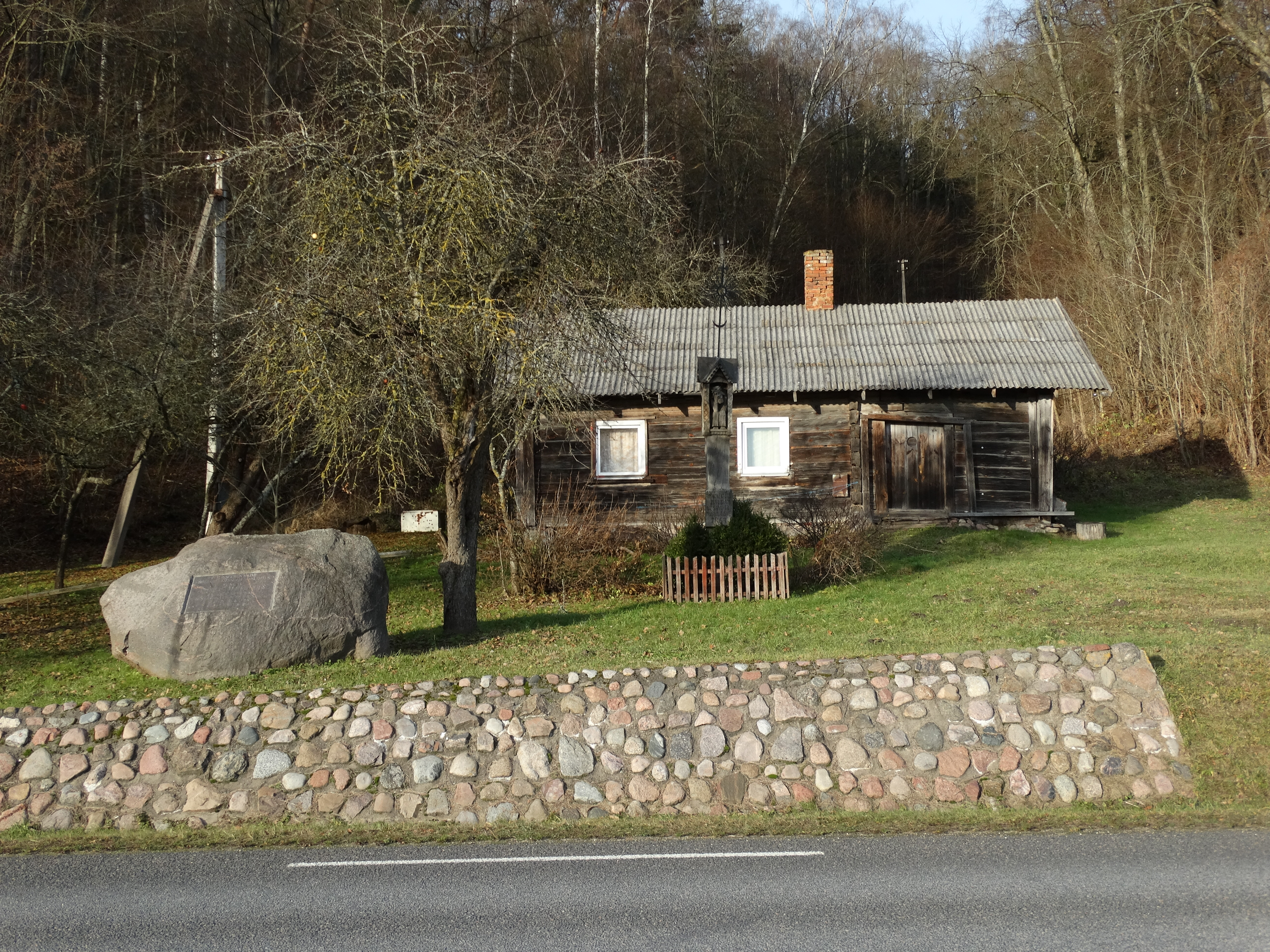 Ringovė, Kaunas district, Lithuania